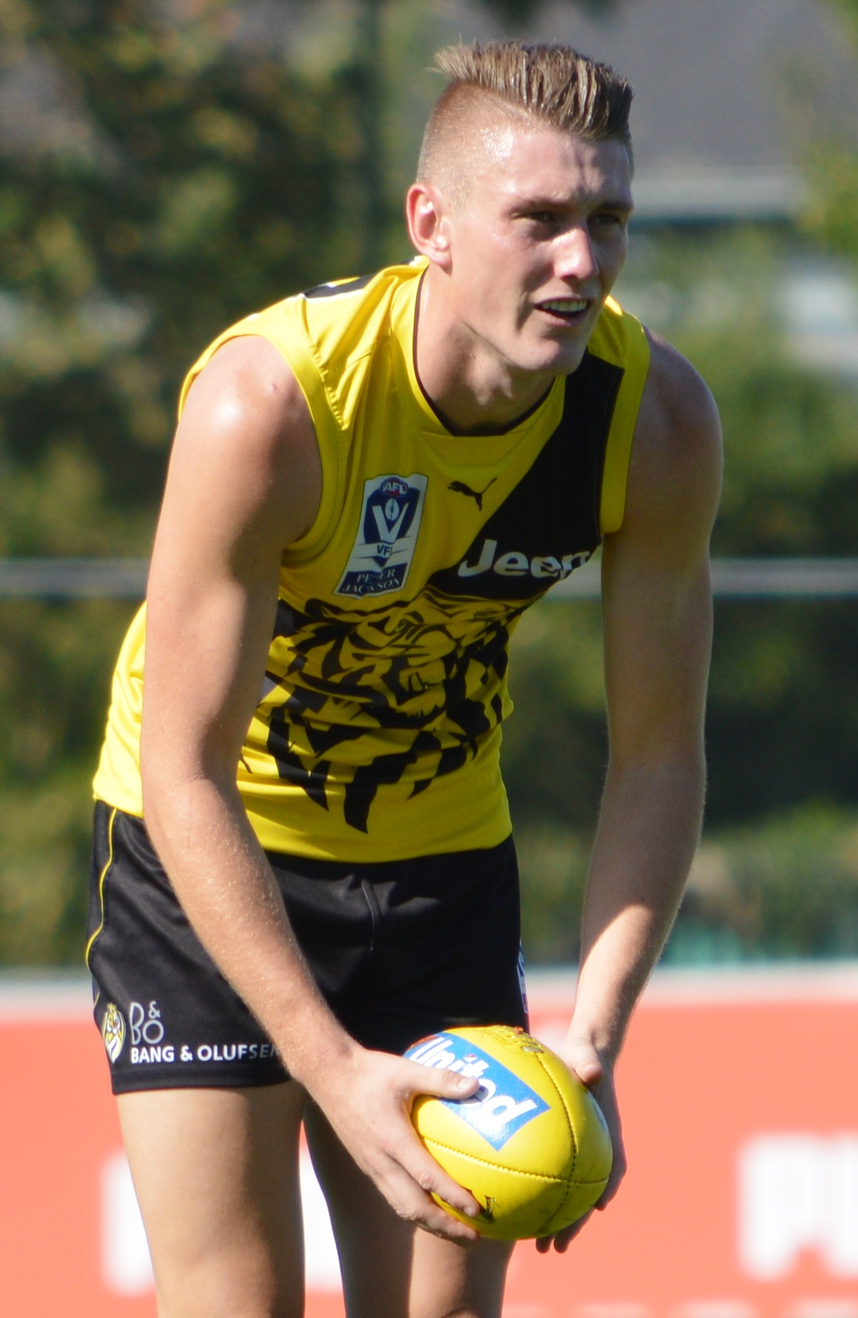 Callum Moore with Richmond during a VFL practice match against the Northern Blues in March 2018